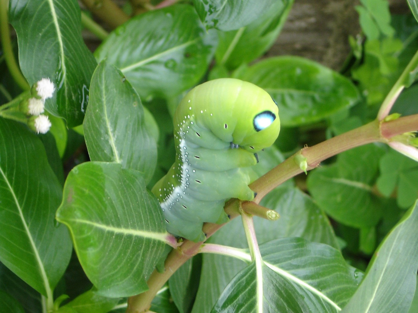 The larva of an oleander hawk moth, taken in Tak province, northwestern Thailand.